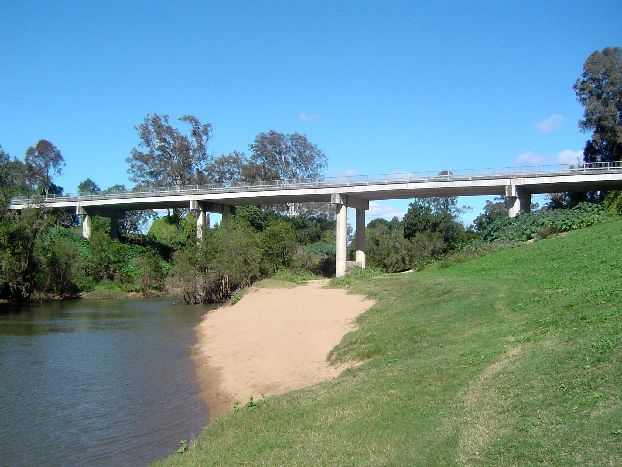 Photo of the Logan River and Cusack Lane bridge at Jimboomba Lions Park, Jimboomba, South East Queensland, Australia.